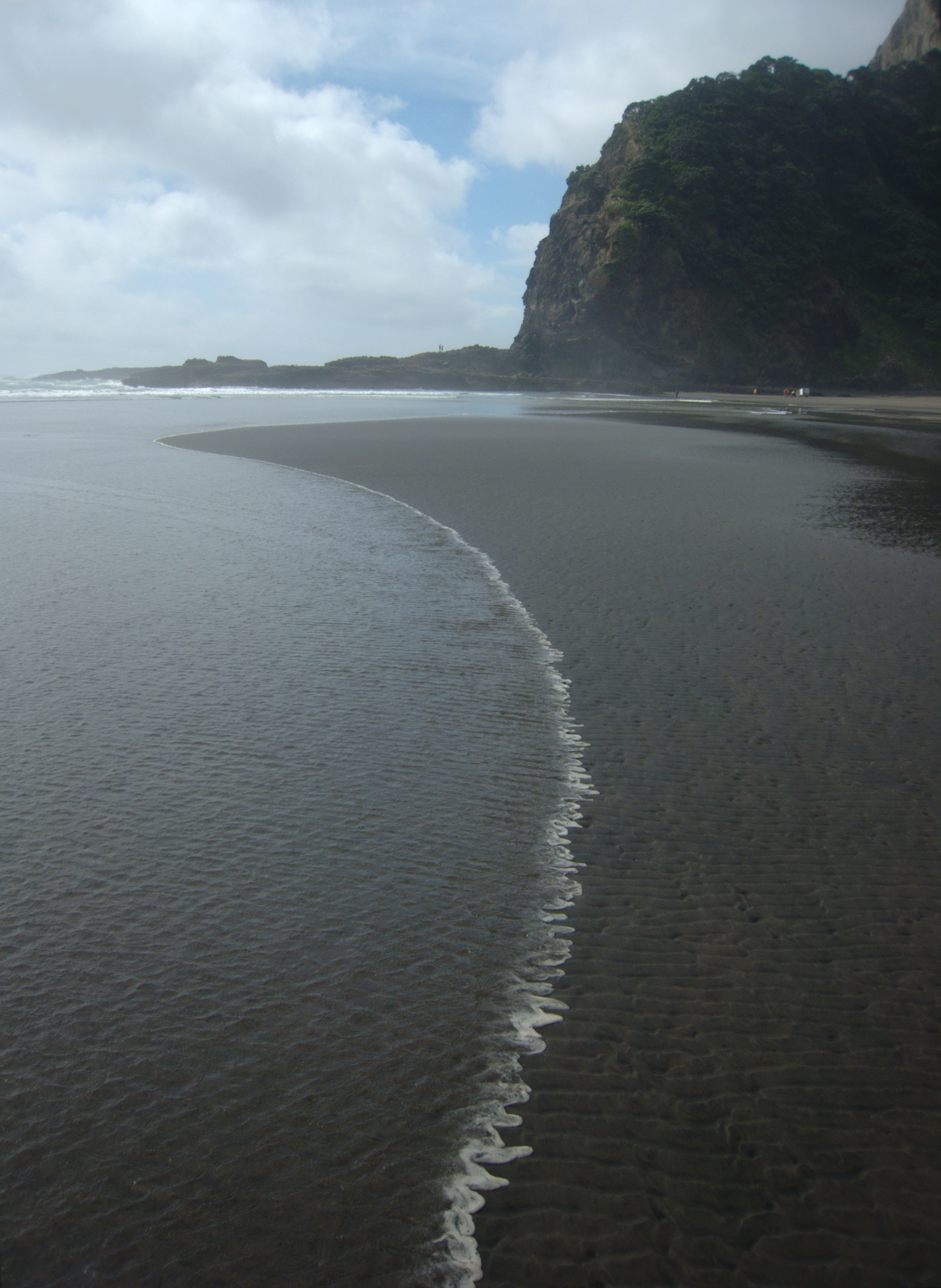 Wave advancing across ripples in the sand, near the north end of Karekare beach (labelled Union Bay on NZTopo maps), Auckland, New Zealand. The couple standing on the rocks indicate the scale, as do the people at the end of the beach.